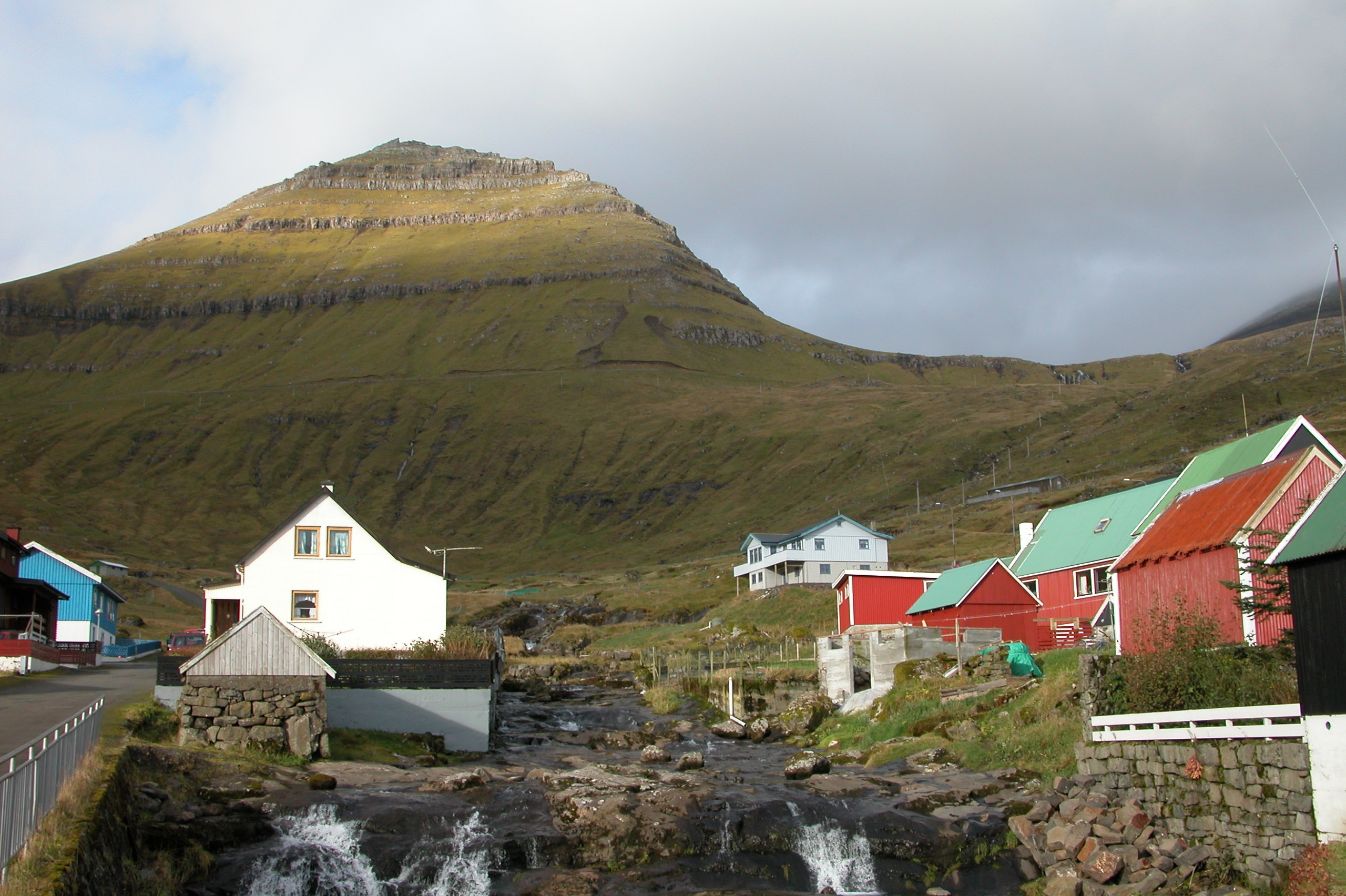 Funningur in Eysturoy, Faroe Islands. With mount Slættaratindur in the background.